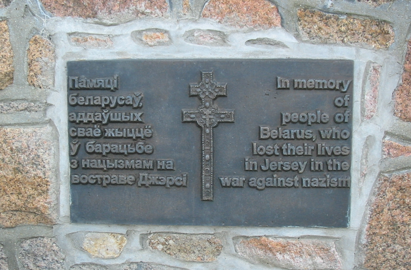 In memory of people of Belarus, who lost their lives in Jersey in the war against nazism